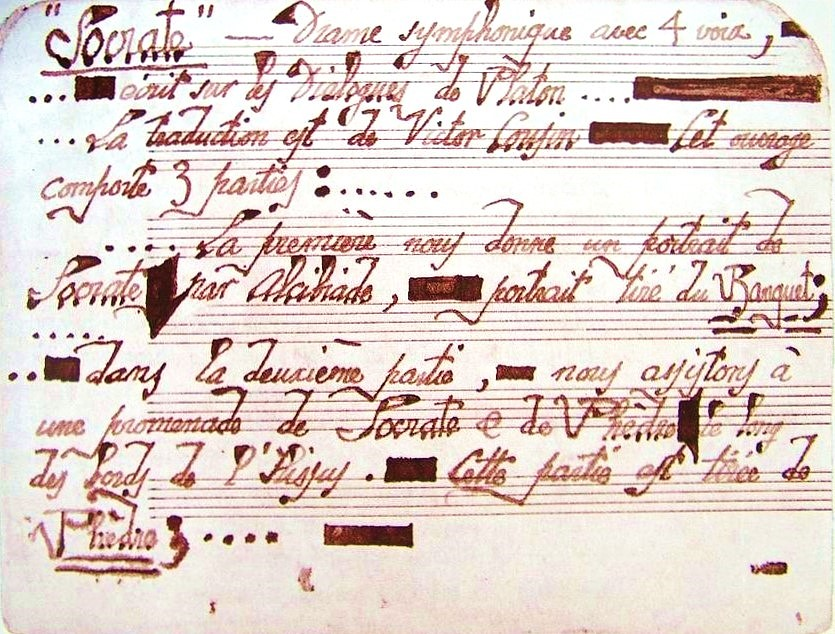 Cropped, adjusted version of PD image on Commons